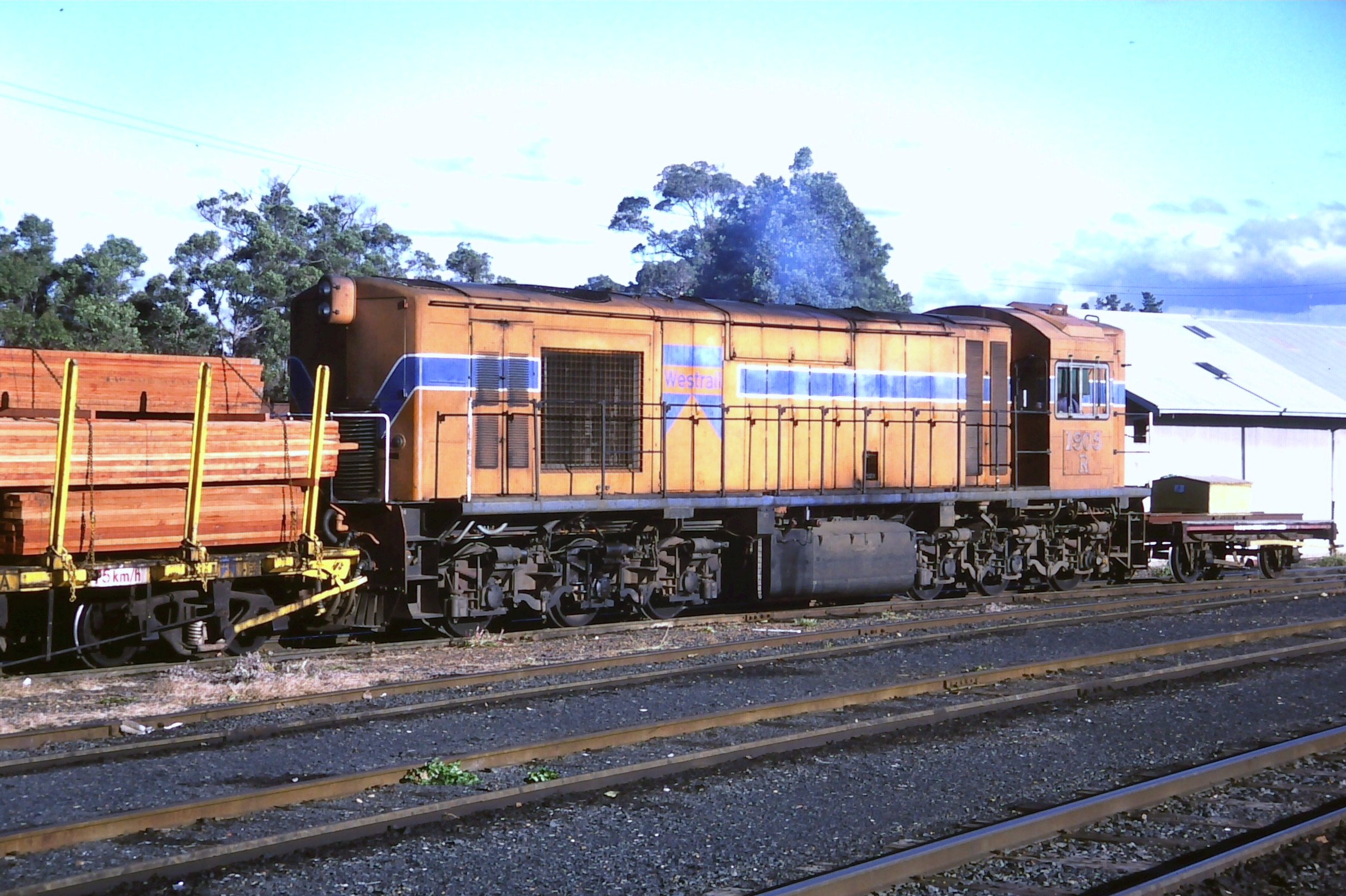 Western Australian Government Railways R class diesel locomotive no R1905, in Westrail orange and blue livery, rests between shunting duties at Manjimup railway station, Western Australia.Kodachrome slide converted by Kaiser Baas Photo Maker Pro into a digital image.